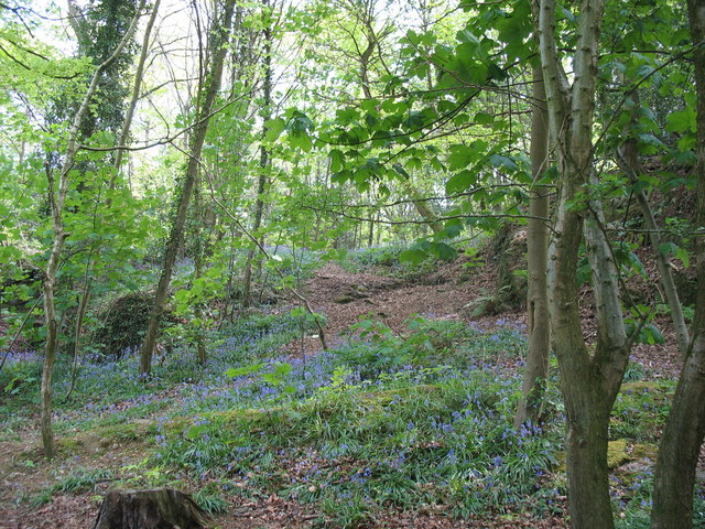 Bluebells in Coed Cyrnol The Welsh names for bluebells are: clychau'r gog (cuckoo' bells) and croeso haf (summer's welcome).